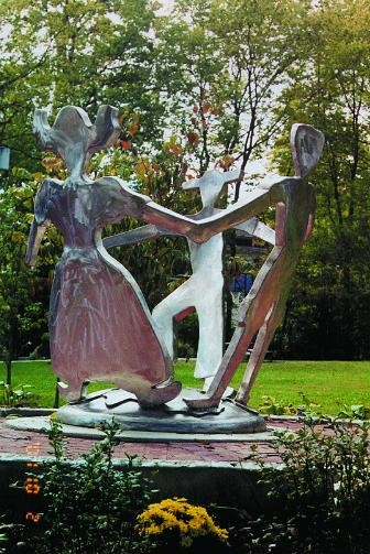 The sculpture at the first CISV camp-site presented in 2001